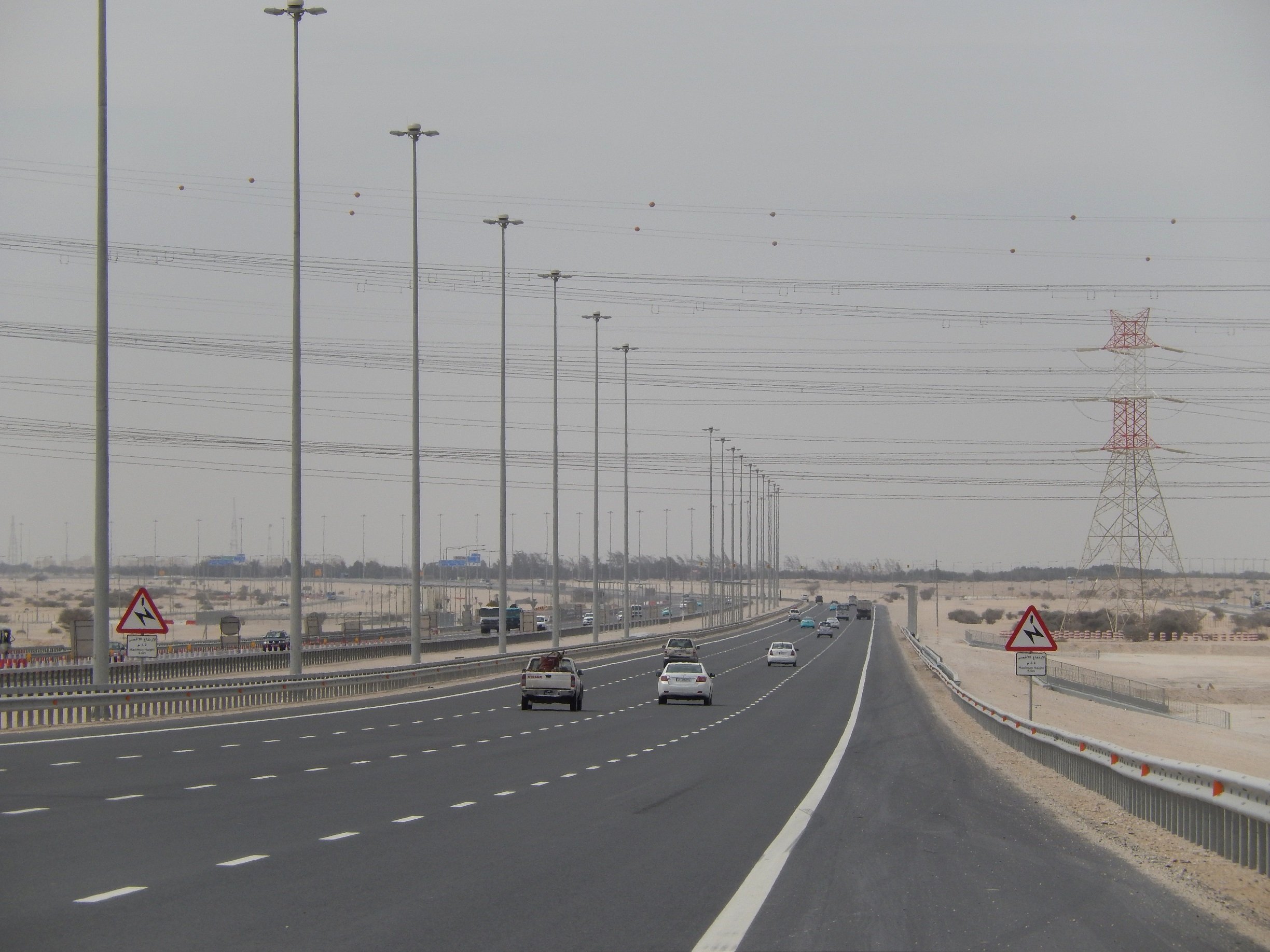 Highway from Doha to Dukhan (Dukhan Highway, Q3) in Qatar. Picture taken about 22 km west of Doha, half way between Doha and Ash-Shahaniyah.